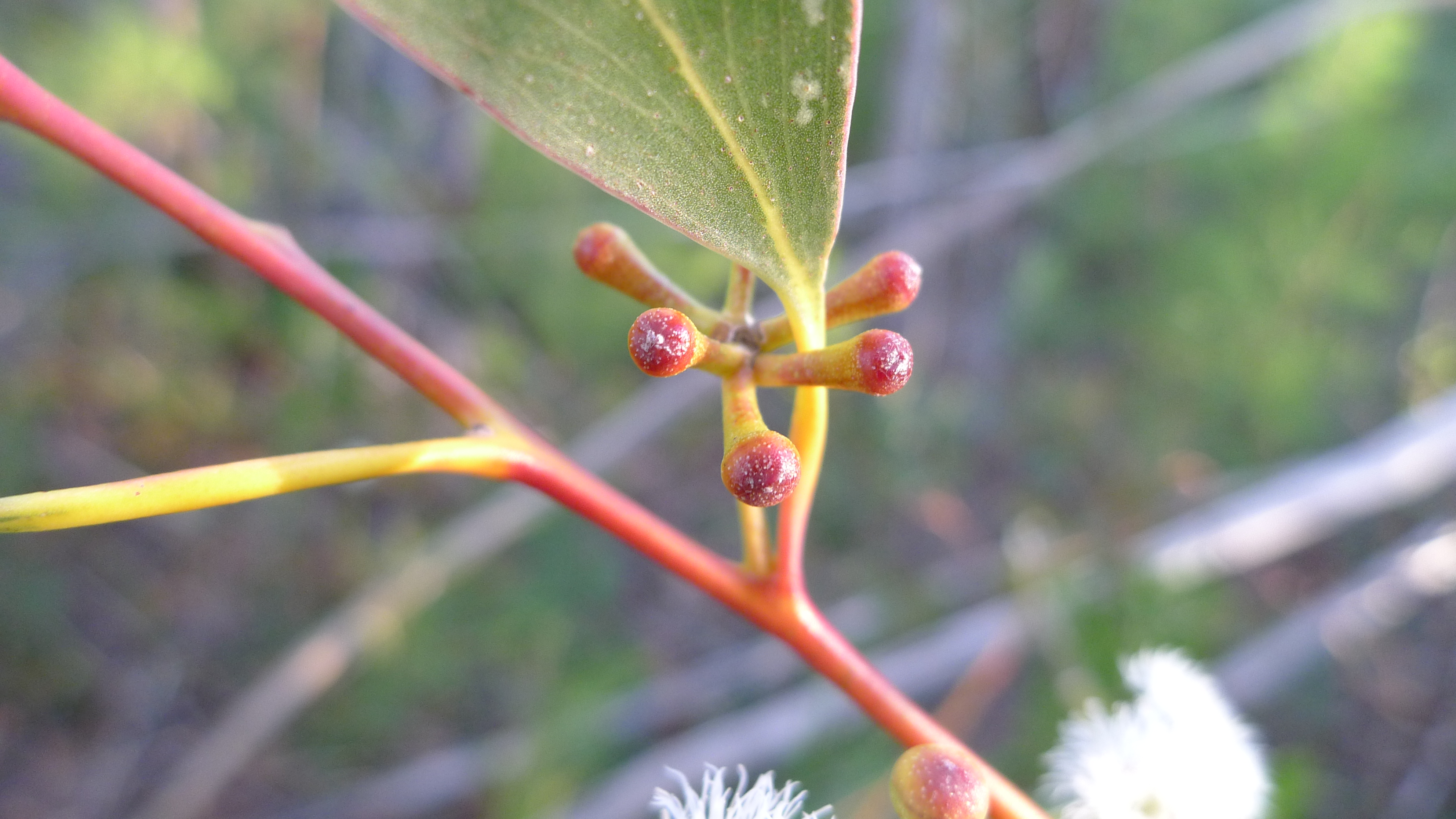 Buds of the Whipstick Ash, Eucalyptus multicaulis. Heathcote National Park, NSW Australia, July 2011.